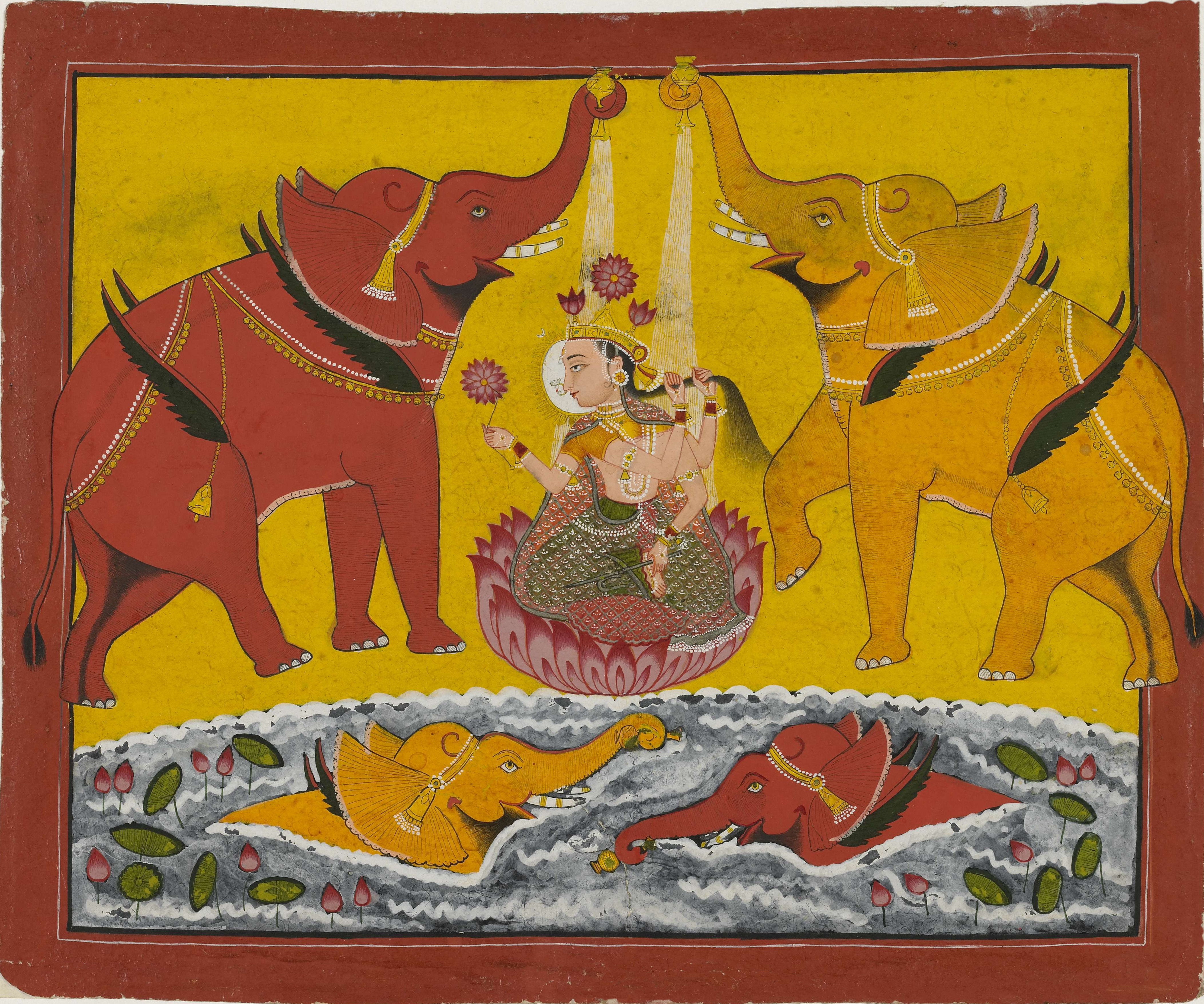 "Gaja-Lakṣmī; an image of the goddess Lakṣmī, who reigns over fertility and good fortune, seated on a lotus with an elephant (gajah in Sanskrit) on either side. They have small wings, a detail which recalls the myth in which the elephants freely roamed throughout the sky. They lustrate water over her from the pitchers they carry in their uplifted trunks. The goddess carries a lotus in her lower-right hand and she wrings her wet hair with her upper pair of hands, while the lower-left hand rests on her lap. Here the group levitates over a sea abundant in lotuses where two further elephants are swimming."